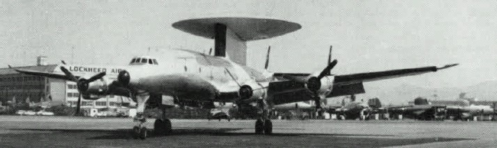 The Lockheed WV-2E Warning Star (BuNo 126512, c/n 1049A-4301) modified as WV-2E with radar in a rotodome above the aircraft in 1956. This aircraft was retired to NAF Litchfield Park, Arizona (USA), for storage on 5 June 1962. However, it was redesignated EC-121L in November 1962 and scrapped on 18 Feburay 1965. Note the regular WV-2s in the background.